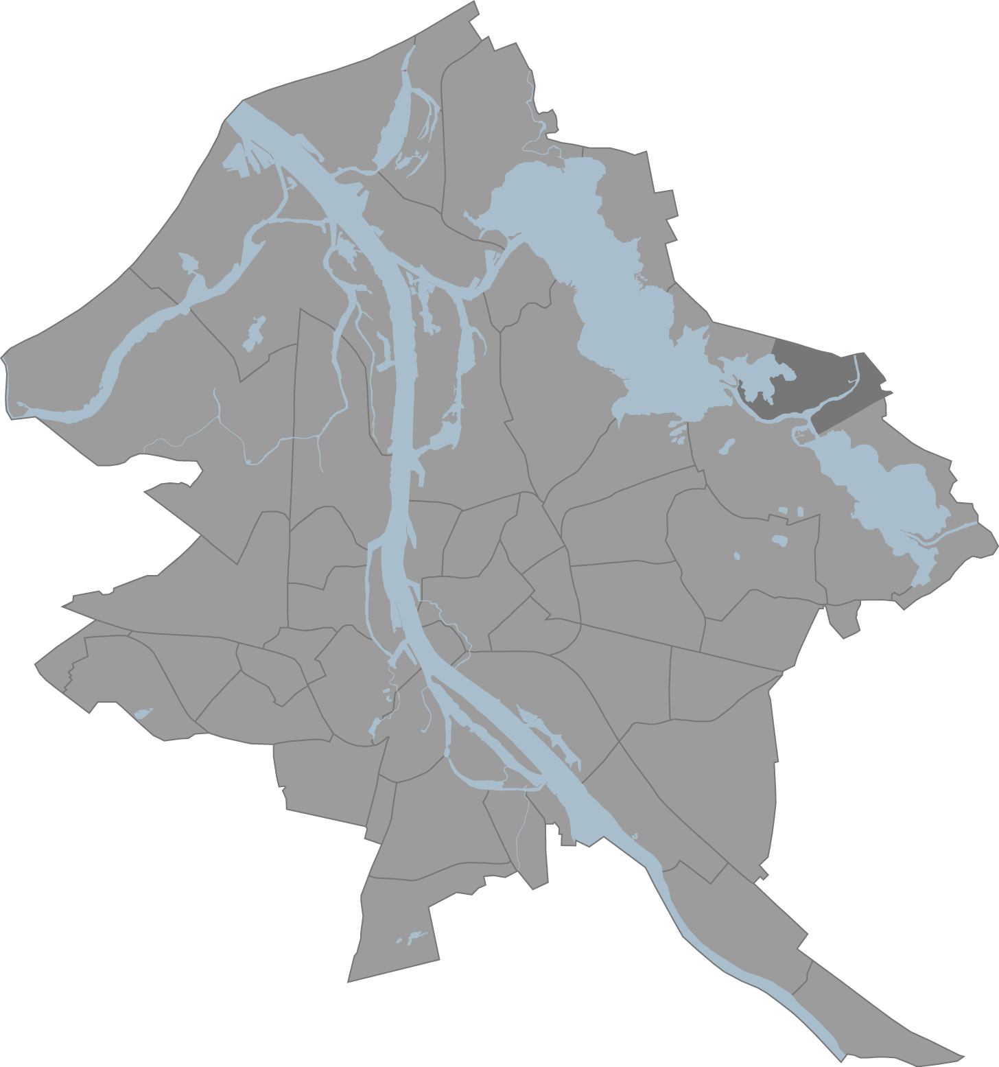 A map of Riga, Latvia with the eponymous commune highlighted